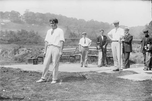 A 1905 golf match between Walter Clark (left) vs. Isaac Mackie (right) at Fox Hills Golf Club, Staten Island, NY.